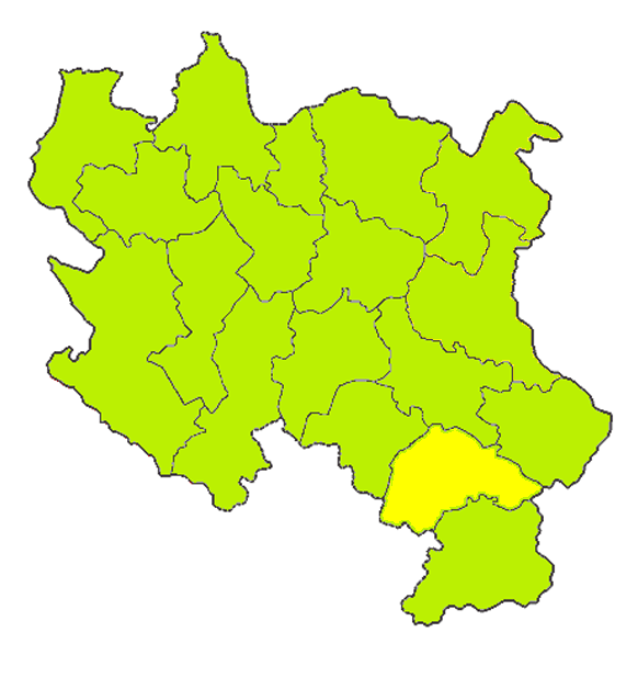 Map of Jablanica